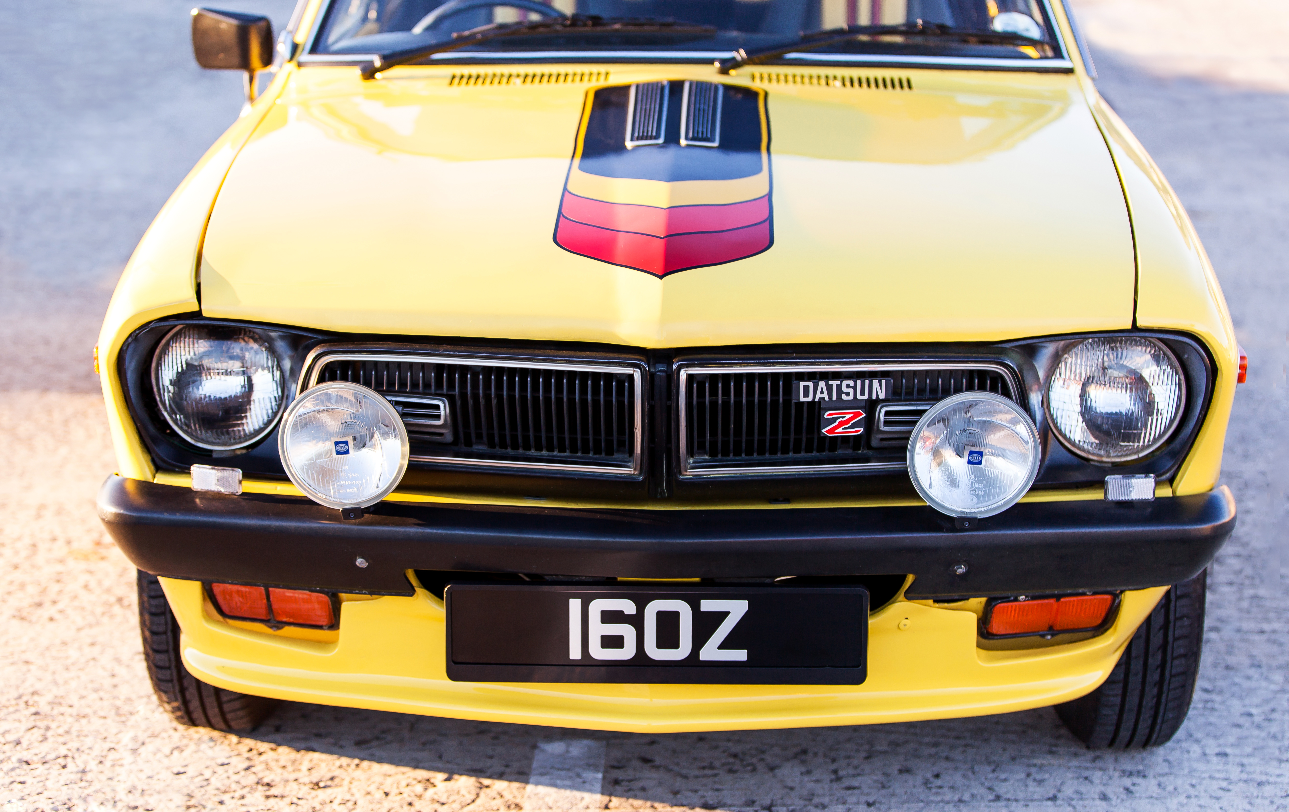 Canary yellow Nissan-Datsun (B210) 160Z Sports Coupe, South African. DX/GL grill with Z badge. Courtesy of Lee-Ann Vigus - &